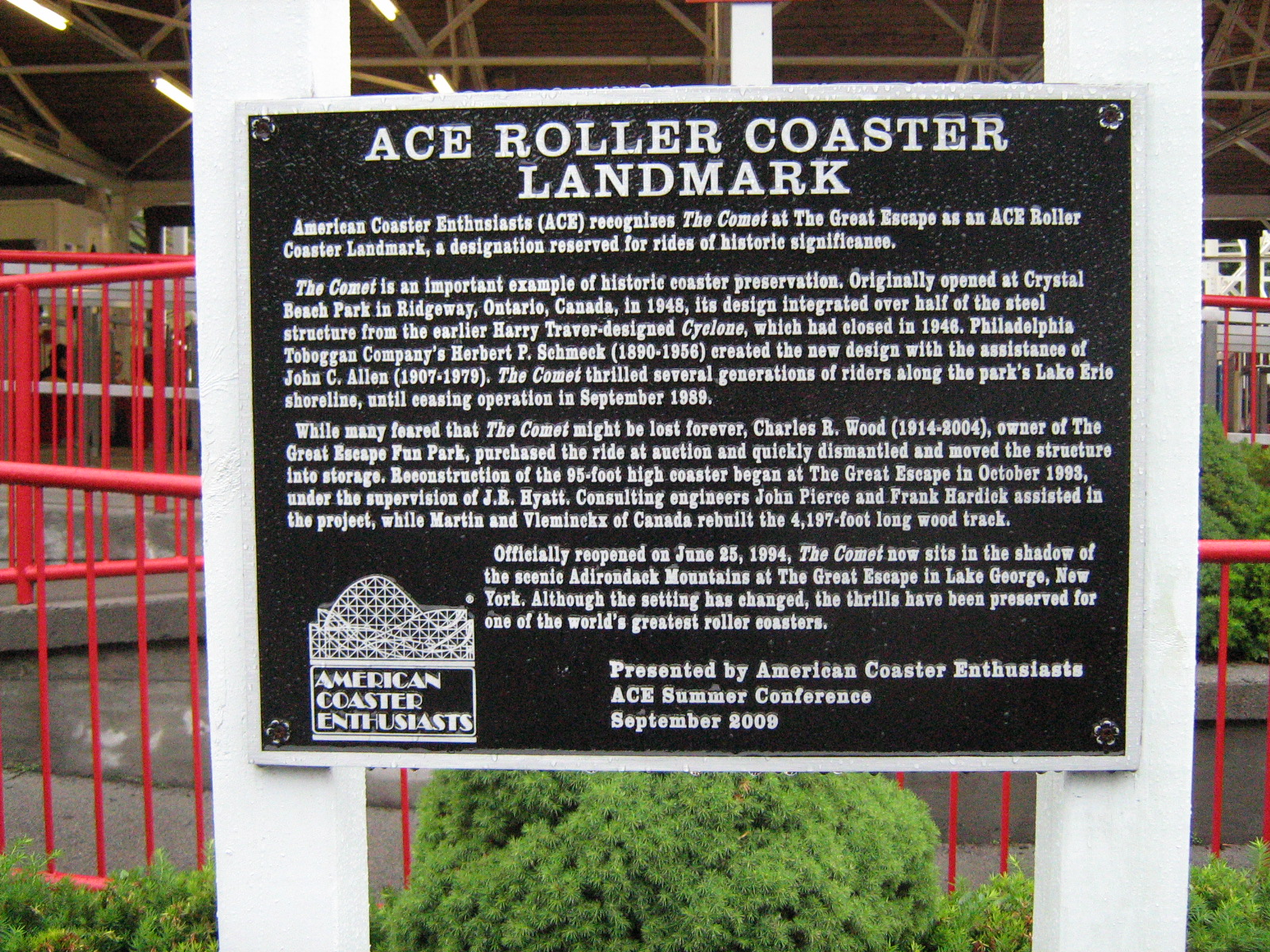 Plaque identifying The Comet (roller coaster at The Great Escape in Queensbury, NY) as an American Roller Coaster Landmark.